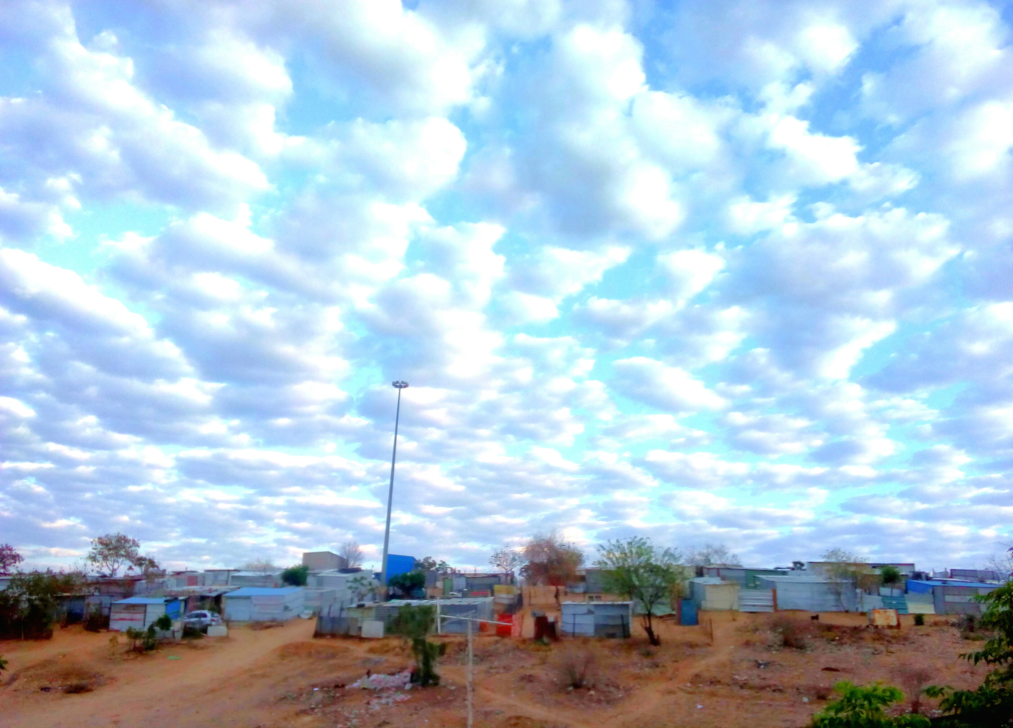 shacks on the hill ground called Katutura in Windhoek with an interesting sky coated with some cumulus cloud. This is an image with the theme "Africa on the Move or Transport" from: Namibia